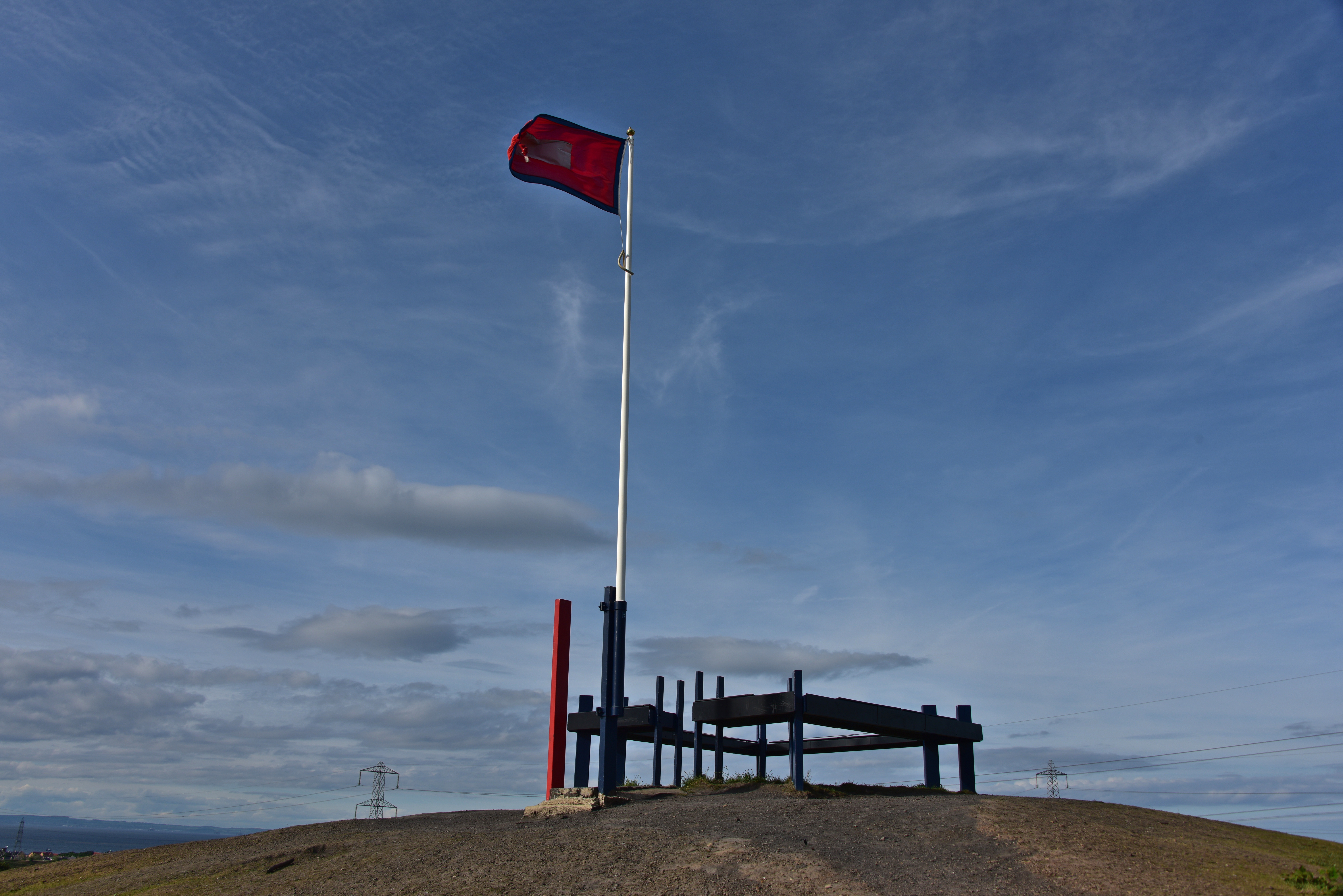 An interpretive installation on a hill in Tranent, overlooking the site of the Battle of Prestonpans.